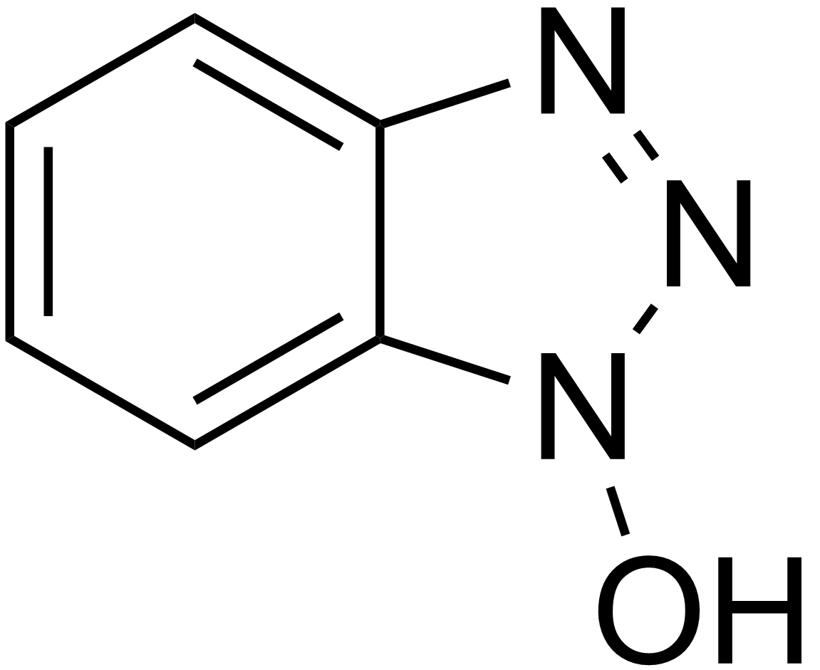 chemical structure of hydroxybenzotriazole (HOBT)